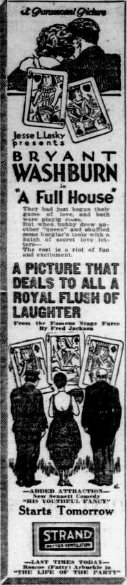 Newspaper advertisement for the American comedy film A Full House (1920), on page 12 of the January 22, 1921 Duluth Herald.